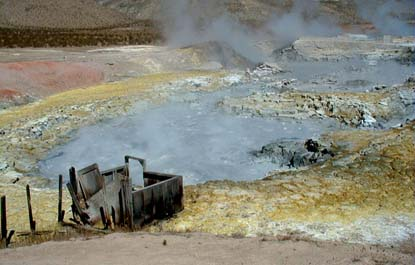 Pictured here are the remains of a wooden sweat lodge used by local Paiutes for curing rituals.